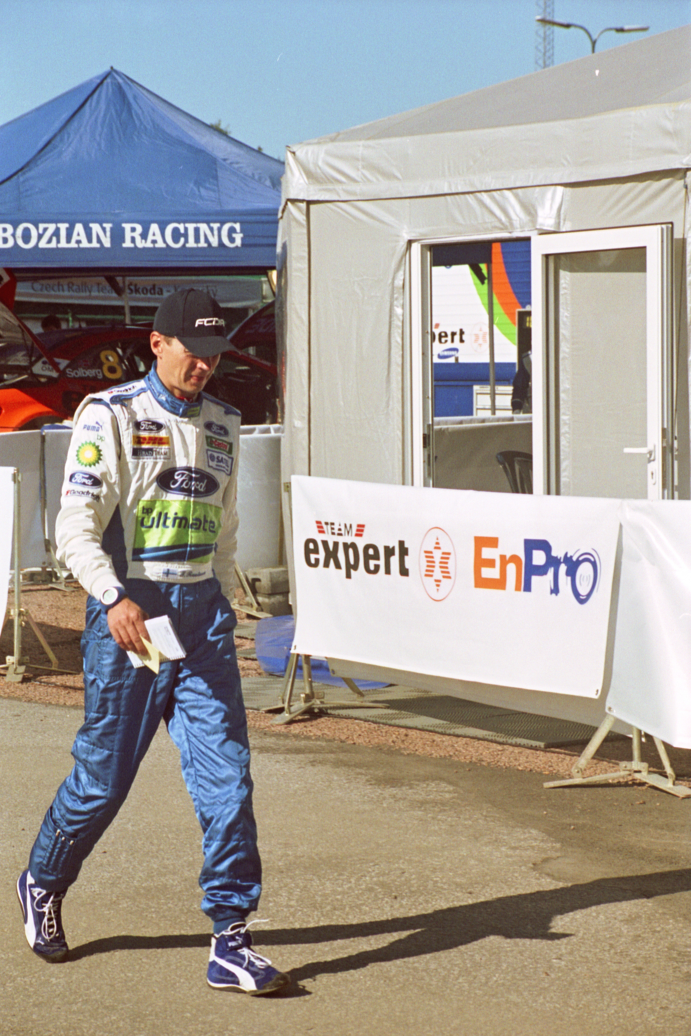 Action from the service park during the 2006 Rally Finland.